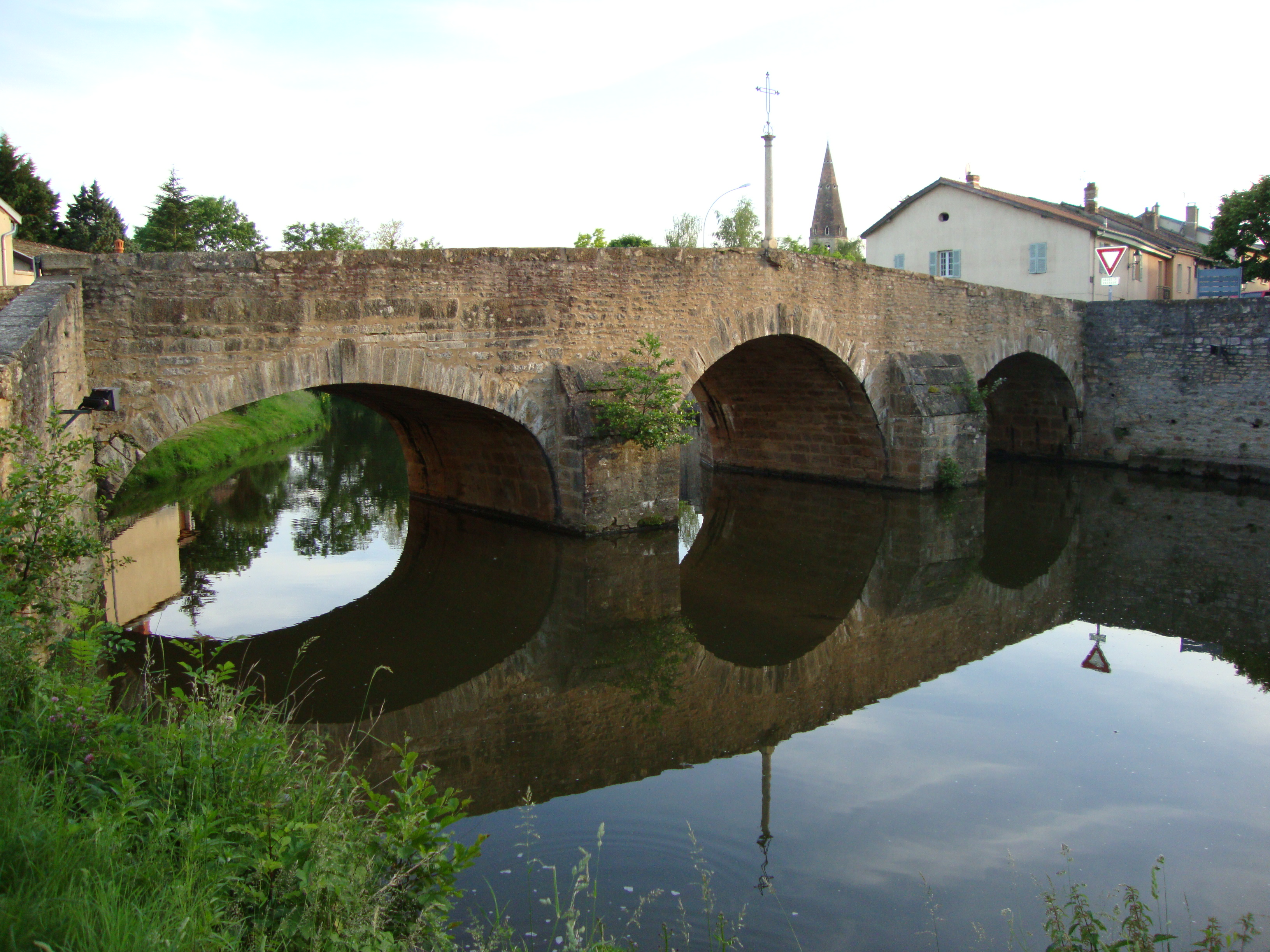 Cluny (Saône-et-Loire, Fr) La Grosne, pont de la Levée